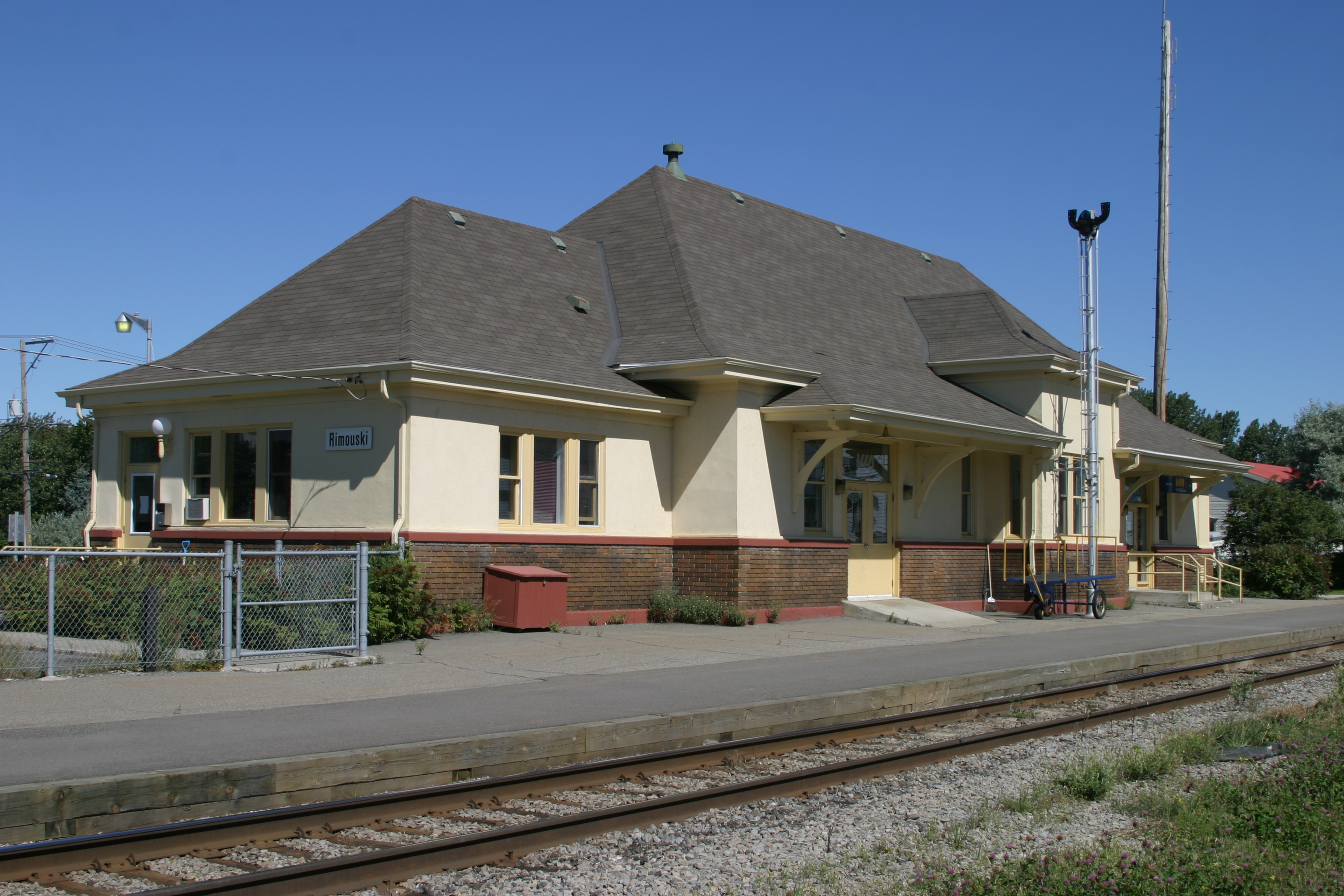 Via Rail's Rimouski train station.